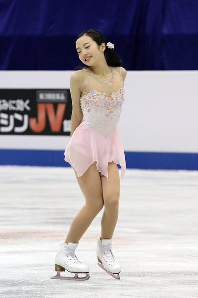 Photos – Junior World Championships 2017 – Ladies